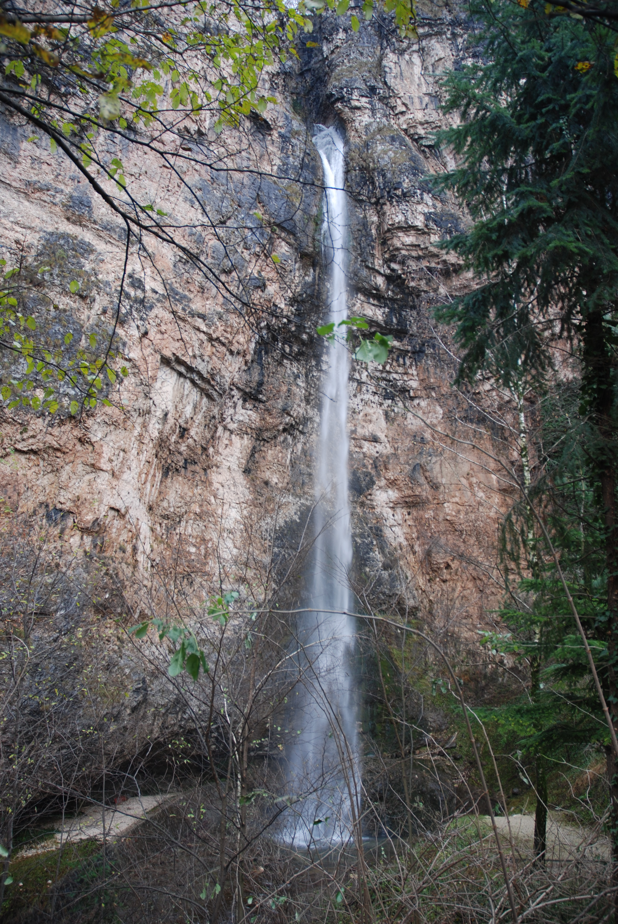 Waterfall of Salorno (other)